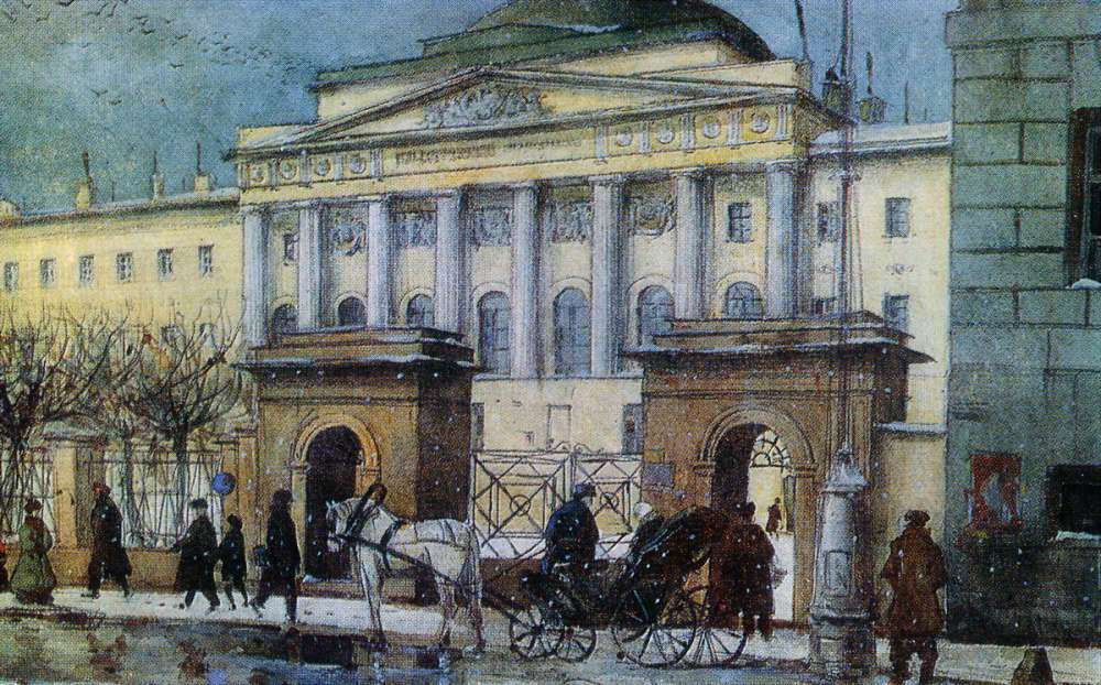 Moscow University